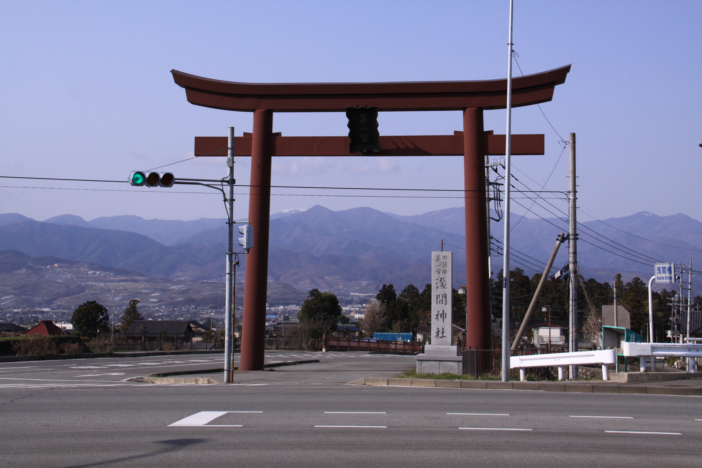 Ichinomiya asama-jinja 1st Gate